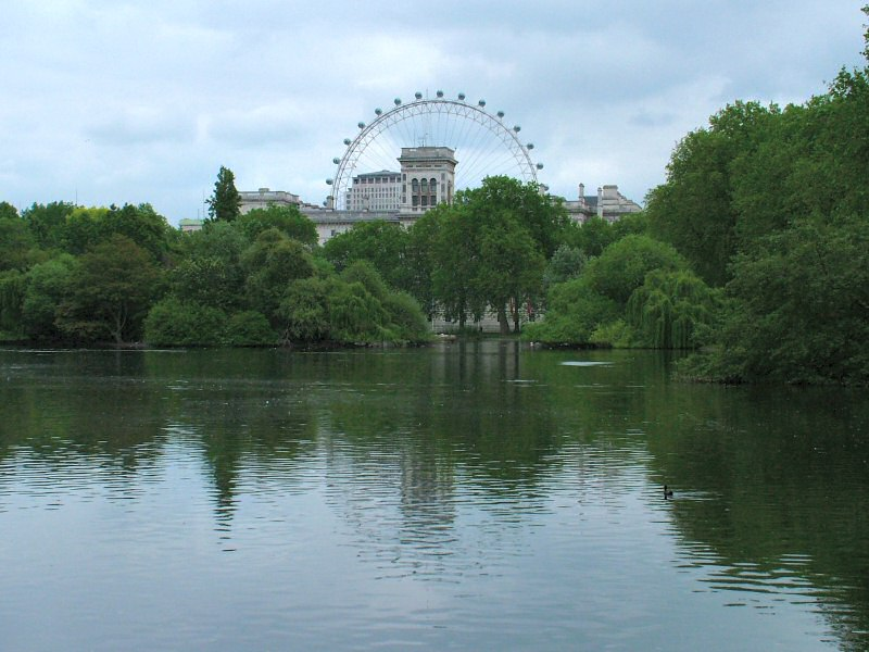 Date: 5th June 2004 14:02 Focal length: 15mm F number: 7.0 ISO: 160 Modifications: Cropped